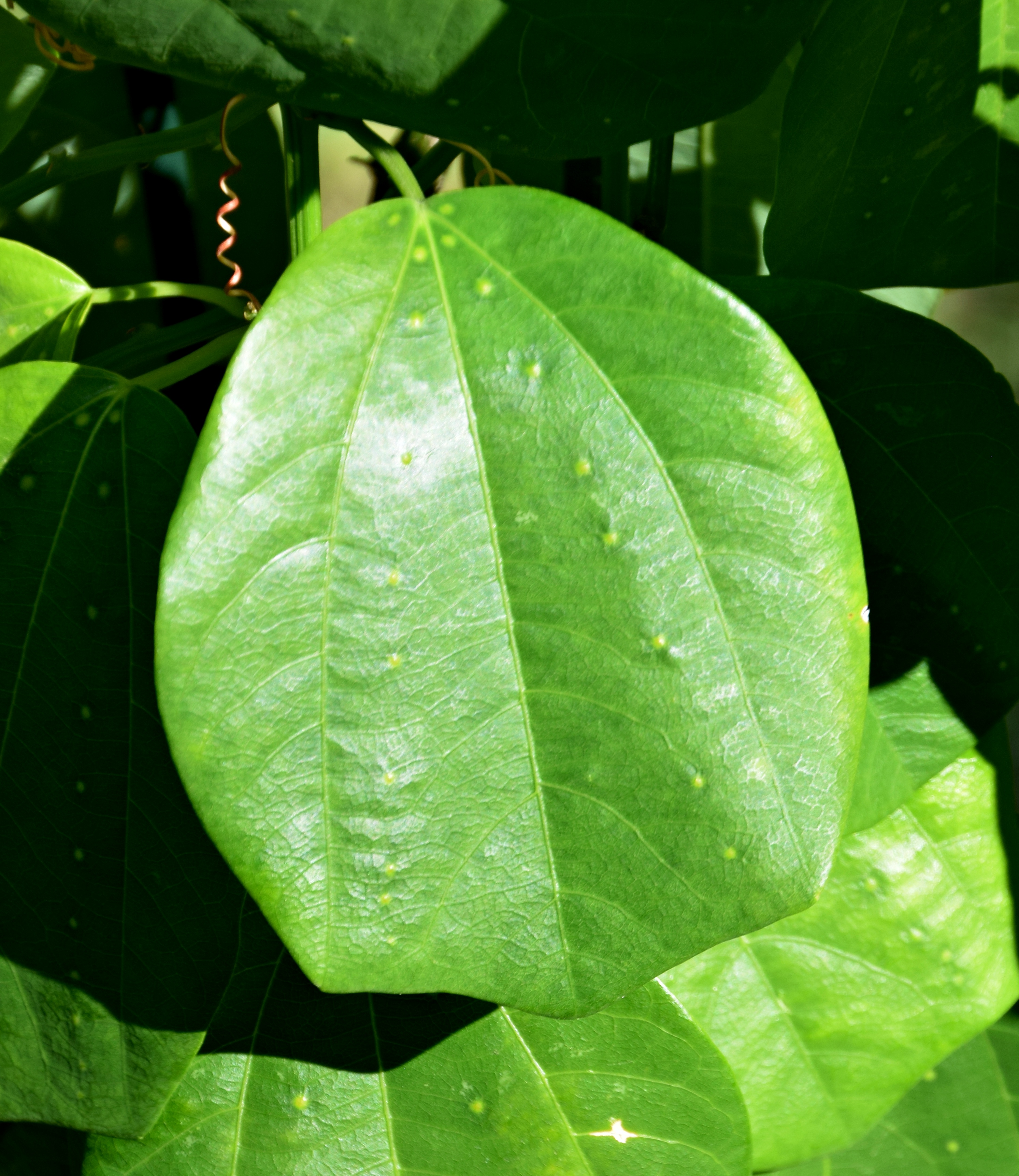 Passiflora helleri in Jardin des Plantes de Toulouse